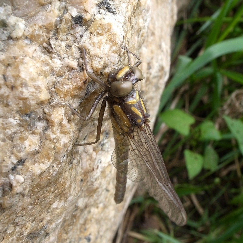 Relict Dragonfly Epiophlebia superstes (Selys, 1889)